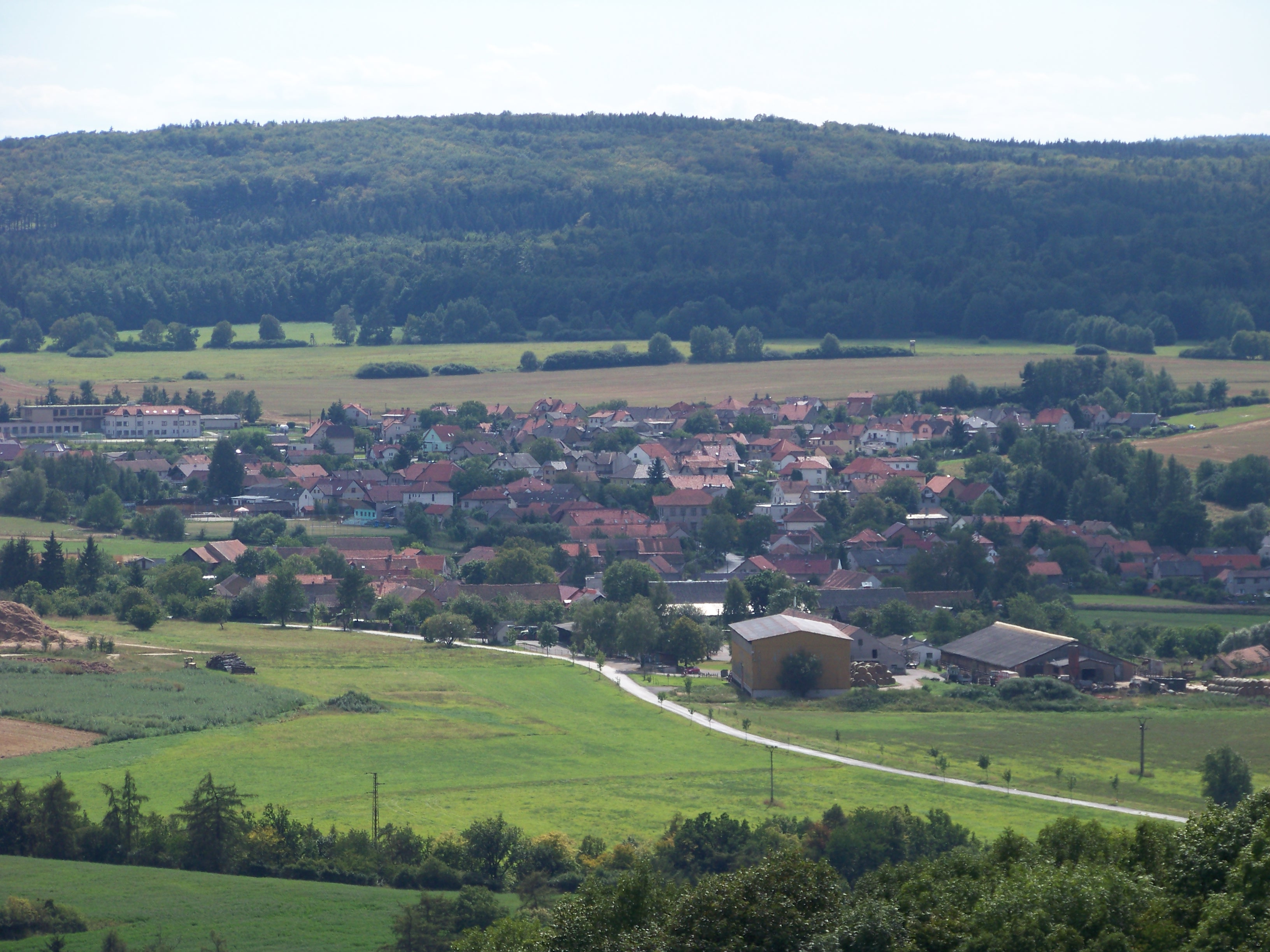 Rakovník District and Beroun District, Central Bohemian Region, the Czech Republic. A views of village of Broumy from Špička Hill. - Google Maps - Google Earth